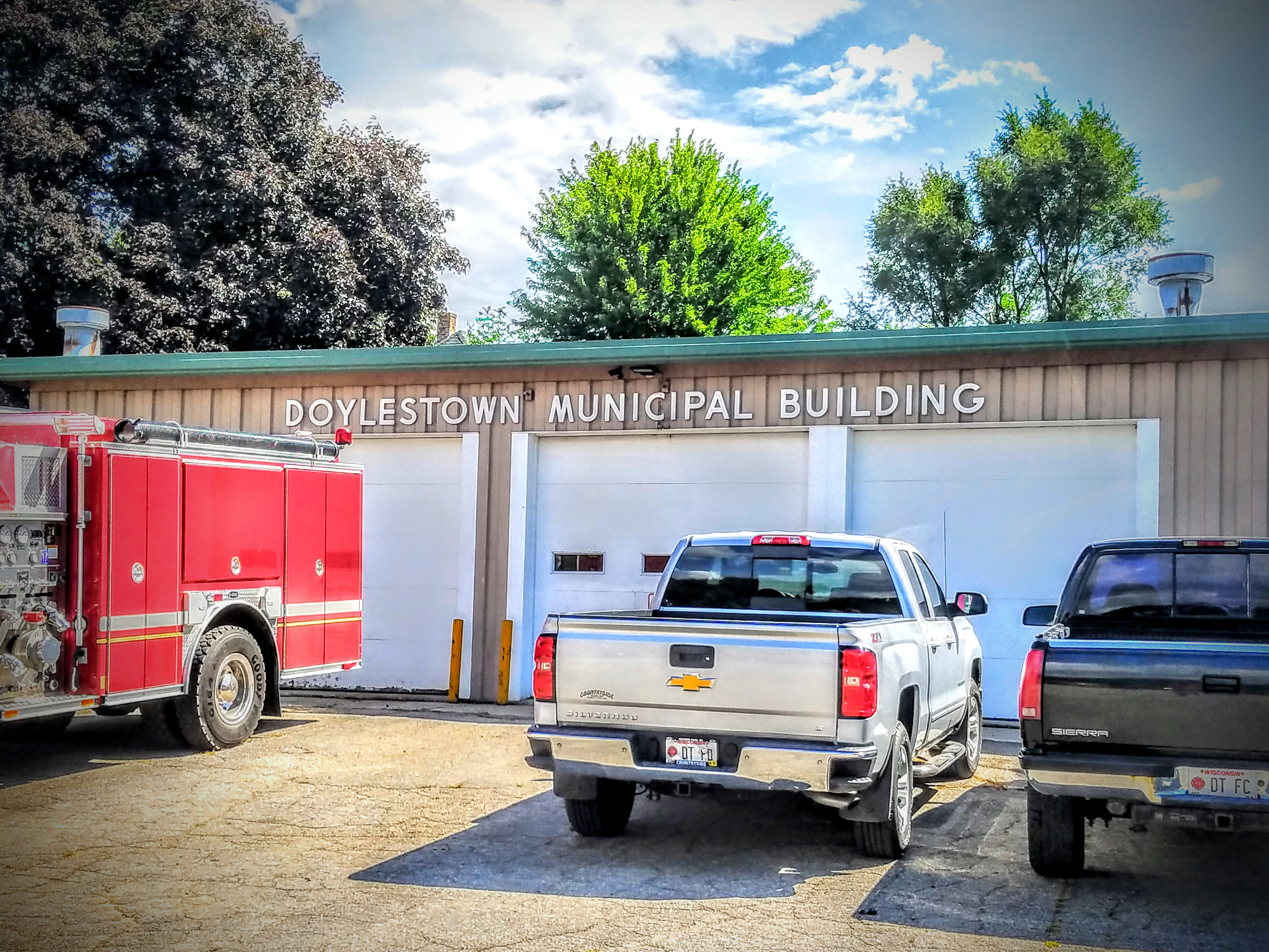 An up close picture of the Doylestown Wisconsin Village Hall